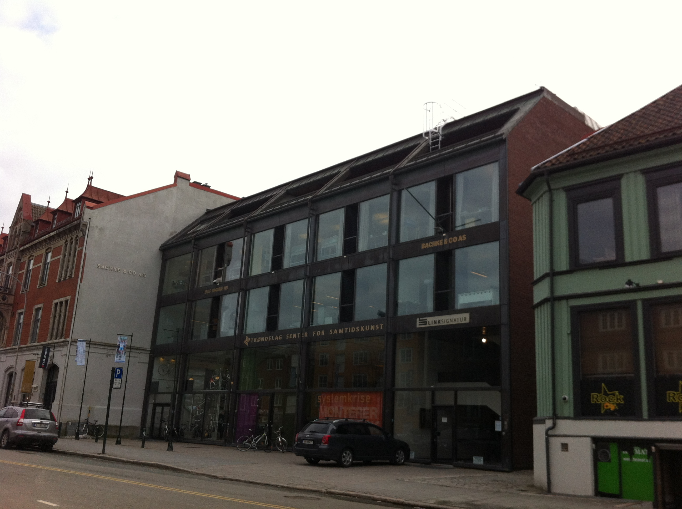 A building in Trondheim, Norway: Fjordgata 11, containing offices and an art gallery. Erected 1972/-73. Architect: Herman Krag Norsk (bokmål): Fjordgata 11, Trondheim. Inneholder kontorer og kunstgalleri. Oppført 1972/-73. Arkitekt: Herman Krag